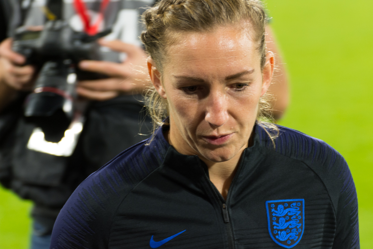 Siobhan Chamberlain after the game vs Australia on 9 October 2018